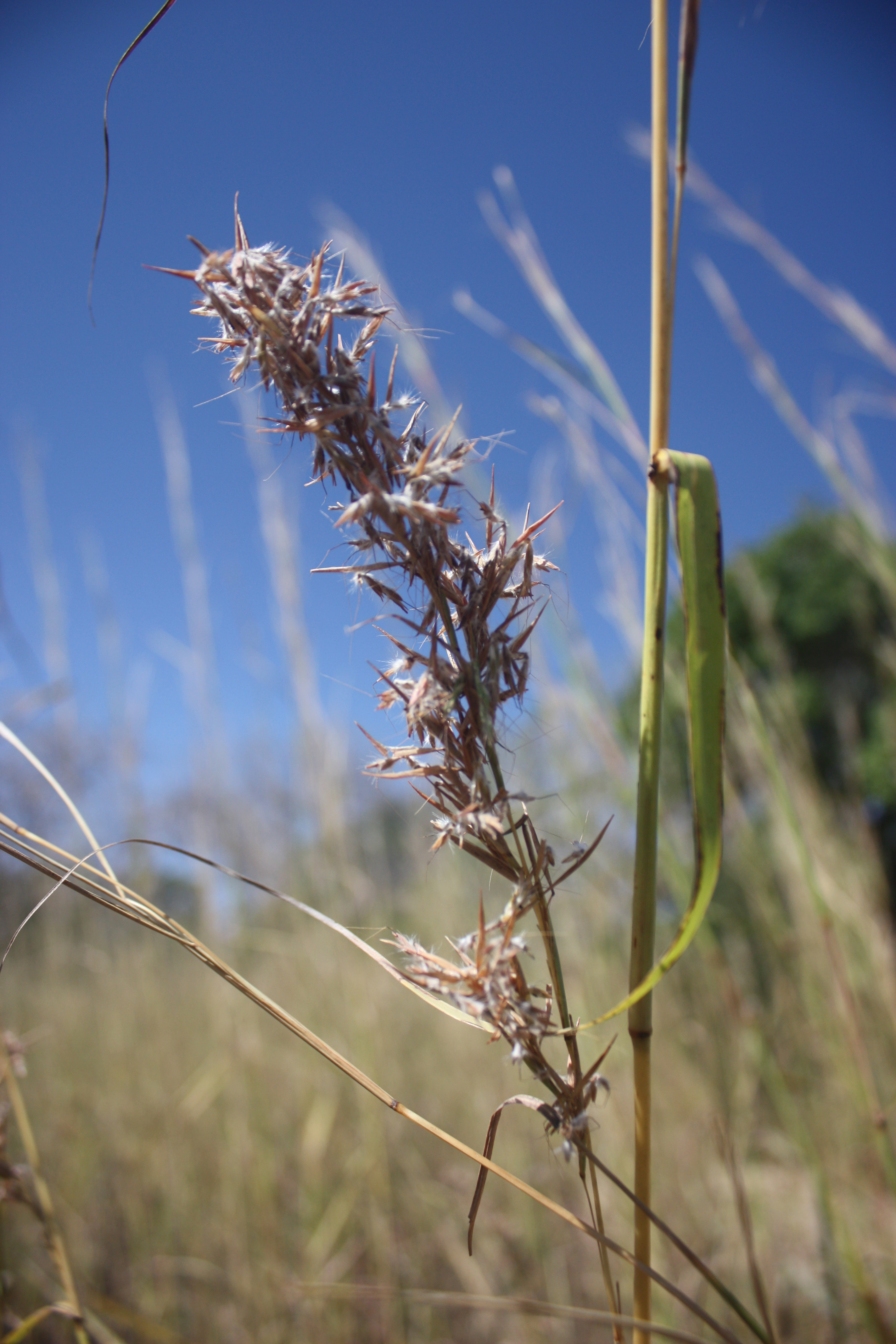 Cymbopogon giganteus in Bantia Botanical Garden near Fada N'Gourma, Burkina Faso